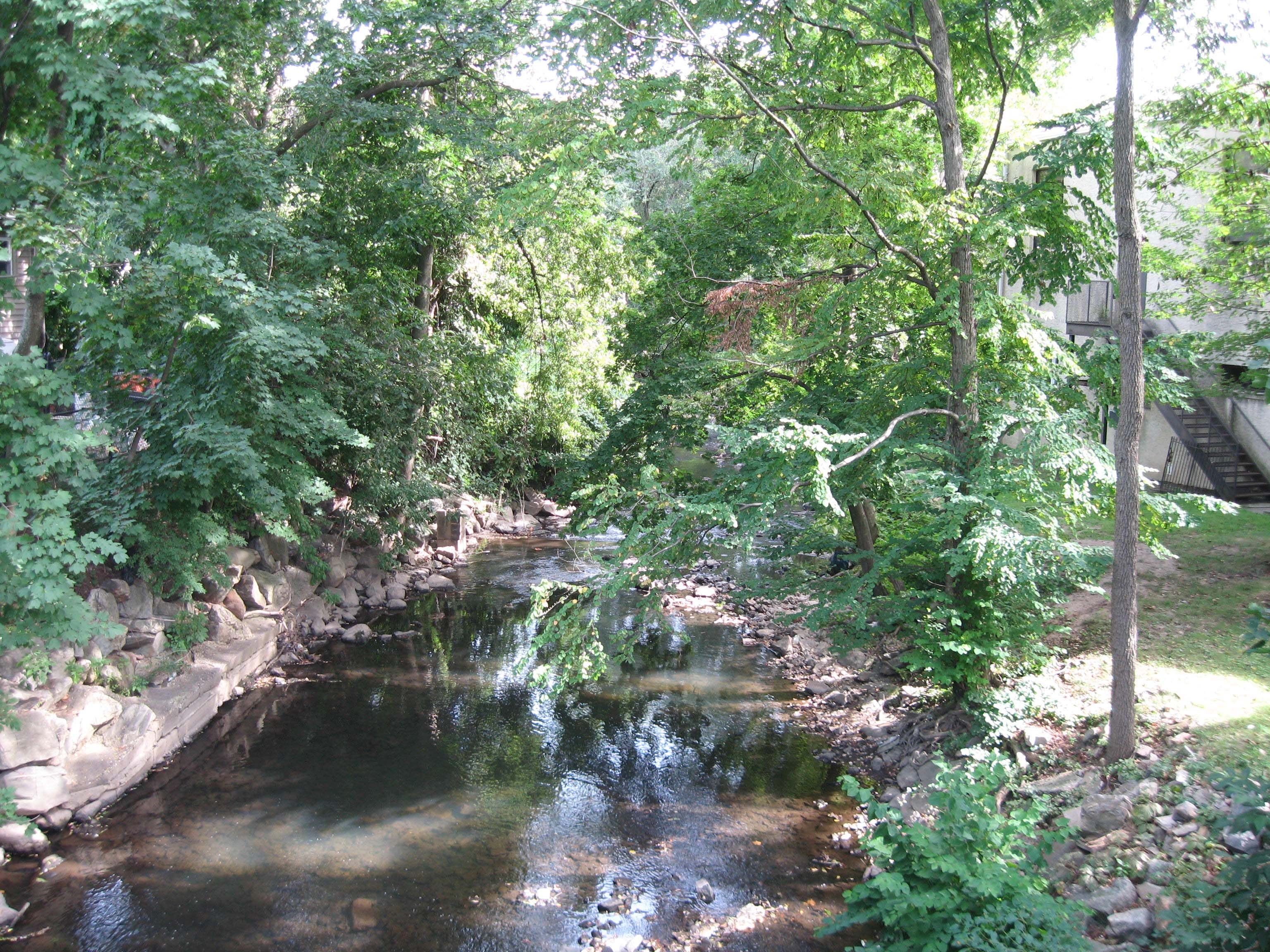 Looking south from Halstead Avenue in Mamaroneck, New York as Mamaroneck River flows towards Long Island Sound on a sunny afternoon